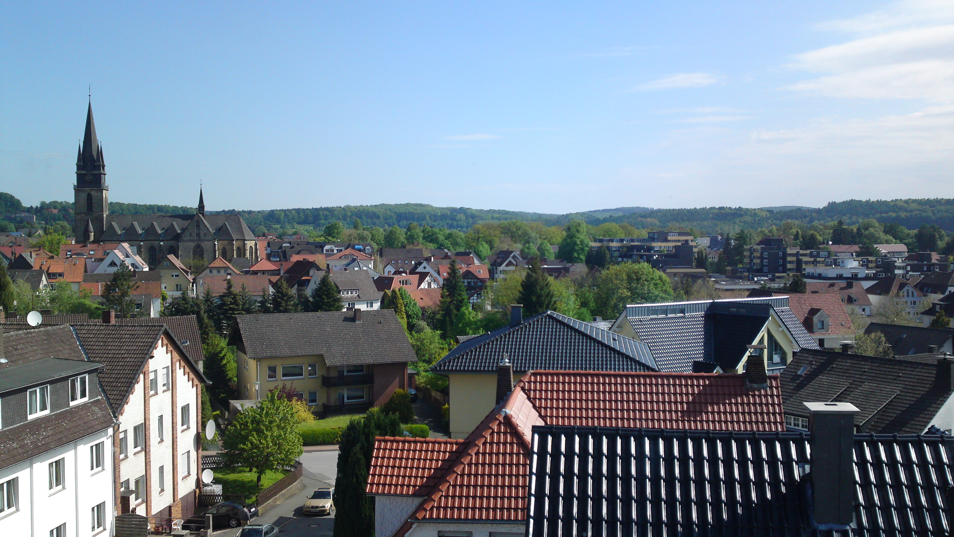 View over Bad Driburg. The St. Peter und Paul Church in the left corner.